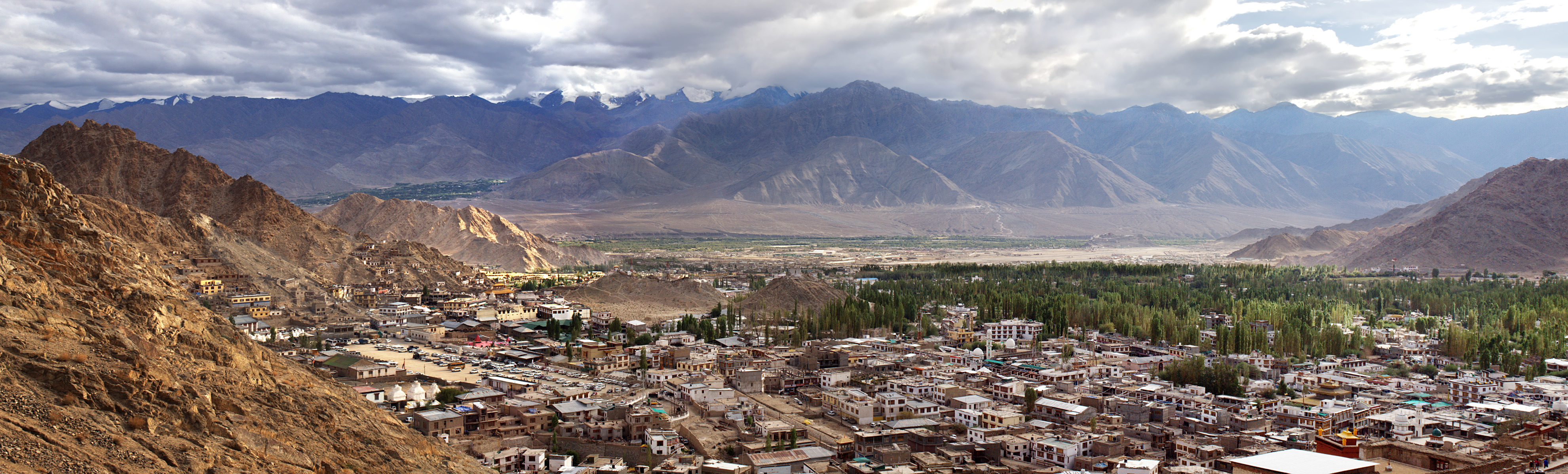 View of Old Leh from the Namgyal Tsemo| hill, with the Indus River valley and the Stok mountain range (part of the Zanskar range) on the background. Stitch of 3 horizontal images.